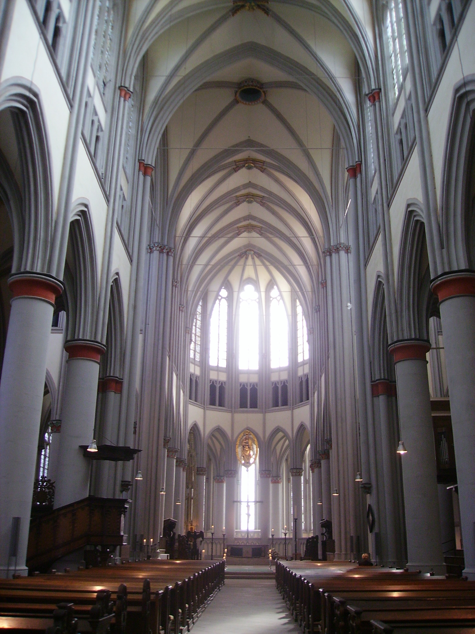 Nave of Altenberg Minster, Odenthal